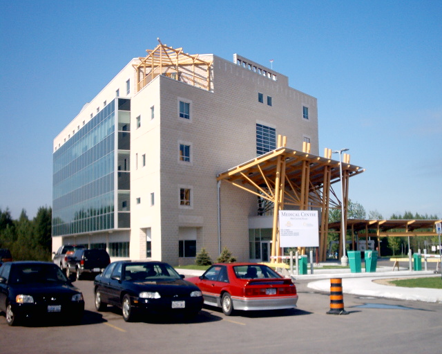 TBRHSC Medical Professional Building